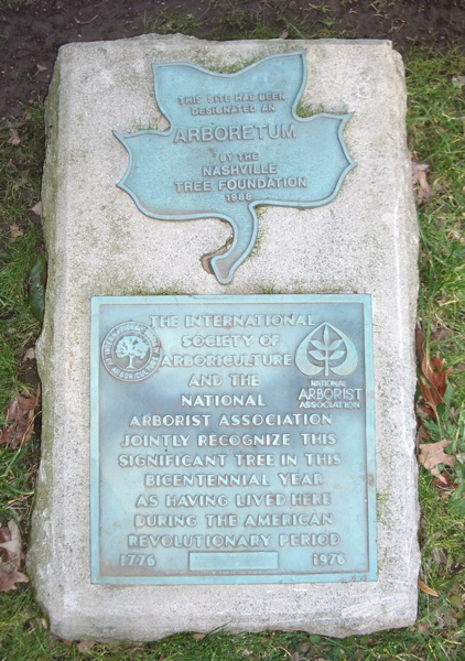 Photo of arboretum plaque (between Garland Hall and Rand Dining Facility) taken by Reid Sullivan 1/24/06.